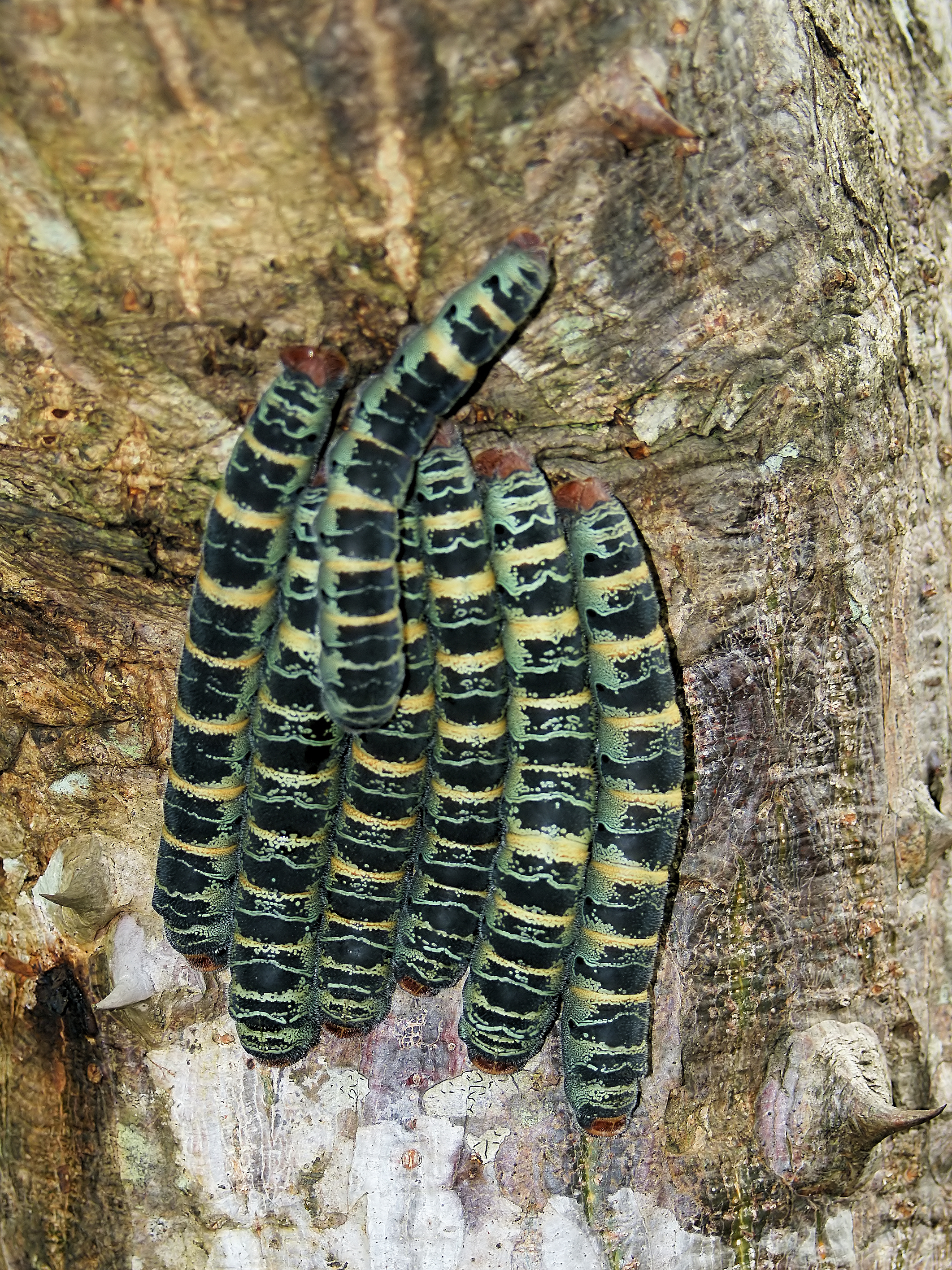 Giant Silk Moth caterpillars on Bombacopsis quinata at Rincon de la Vieja, Costa Rica